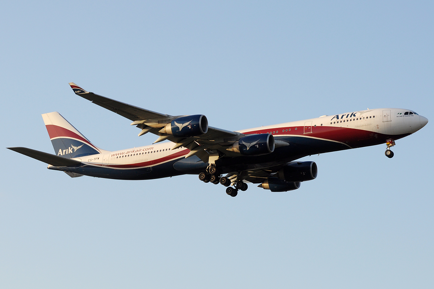 Arik Air A340-500 landing at London Heathrow